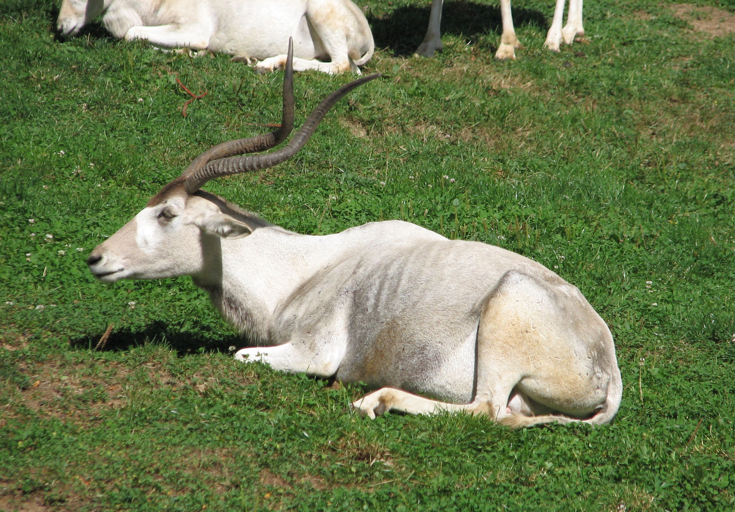 Addax nasomaculatus in ZOO Olomouc, Czech Republic